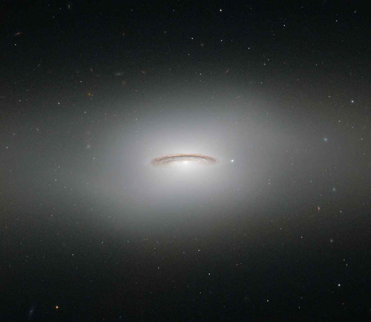 This neat little galaxy is known as NGC 4526. Its dark lanes of dust and bright diffuse glow make the galaxy appear to hang like a halo in the emptiness of space in this new image from the NASA/ESA Hubble Space Telescope. Although this image paints a picture of serenity, the galaxy is anything but. It is one of the brightest lenticular galaxies known, a category that lies somewhere between spirals and ellipticals. It has hosted two known supernova explosions, one in 1969 and another in 1994, and is known to have a colossal supermassive black hole at its centre that has the mass of 450 million Suns. NGC 4526 is part of the Virgo cluster of galaxies. Ground-based observations of galaxies in this cluster have revealed that a quarter of these galaxies seem to have rapidly rotating discs of gas at their centres. The most spectacular of these is this galaxy, NGC 4526, whose spinning disc of gas, dust, and stars reaches out uniquely far from its heart, spanning some 7% of the galaxy's entire radius. This disc is moving incredibly fast, spinning at more than 250 kilometres per second. The dynamics of this quickly whirling region were actually used to infer the mass of NGC 4526’s central black hole — a technique that had not been used before to constrain a galaxy’s central black hole. This image was taken using Hubble’s Wide Field Planetary Camera 2. A version of this image was entered into the Hubble’s Hidden Treasures image processing competition by contestant Judy Schmidt. Hidden Treasures was an initiative to invite astronomy enthusiasts to search the Hubble archive for stunning images that have never been seen by the general public.